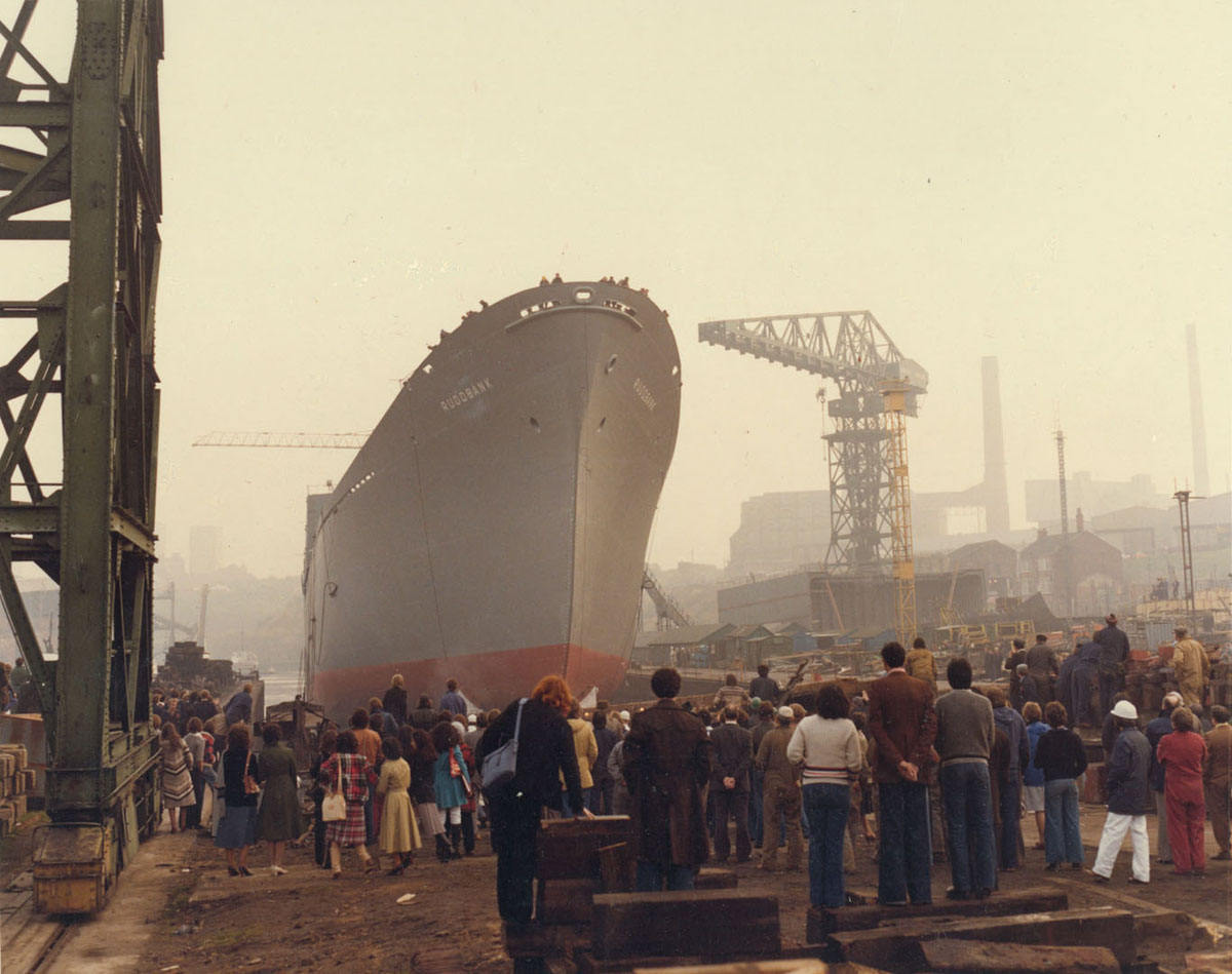 View of the cargo ship ‘Ruddbank’ ready for launch at the Deptford shipyard of Sunderland Shipbuilders Ltd, 1 November 1978 (TWAM ref. DS.DOX/4/PH/1/906/1/2). Tyne & Wear Archives is proud to present a selection of images from its Sunderland shipbuilding collections. The set has been produced to celebrate Sunderland History Fair on 7 June 2014. It's a reminder of the thousands of vessels launched on the River Wear and the many outstanding achievements of Sunderland’s shipyards and their workers. These photographs reflect Sunderland’s history of innovation in shipbuilding and marine engineering from the development of turret ships in the 1890s through to the design for SD14s in the 1960s. The Sunderland shipbuilding collections are full of fascinating stories. Some of these are represented in this set, such as the ‘Rondefjell’, launched in two halves on the River Wear by John Crown & Sons Ltd and then joined together on the River Tyne. The set also shows the vital part that Sunderland’s shipbuilding industry played during the First World War. William Doxford & Sons Ltd built Royal Naval destroyers such as HMS Opal, which served in the Battle of Jutland, while other yards constructed cargo ships to help keep these shores supplied. (Copyright) We're happy for you to share these digital images within the spirit of The Commons. Please cite 'Tyne & Wear Archives & Museums' when reusing. Certain restrictions on high quality reproductions and commercial use of the original physical version apply though; if you're unsure please